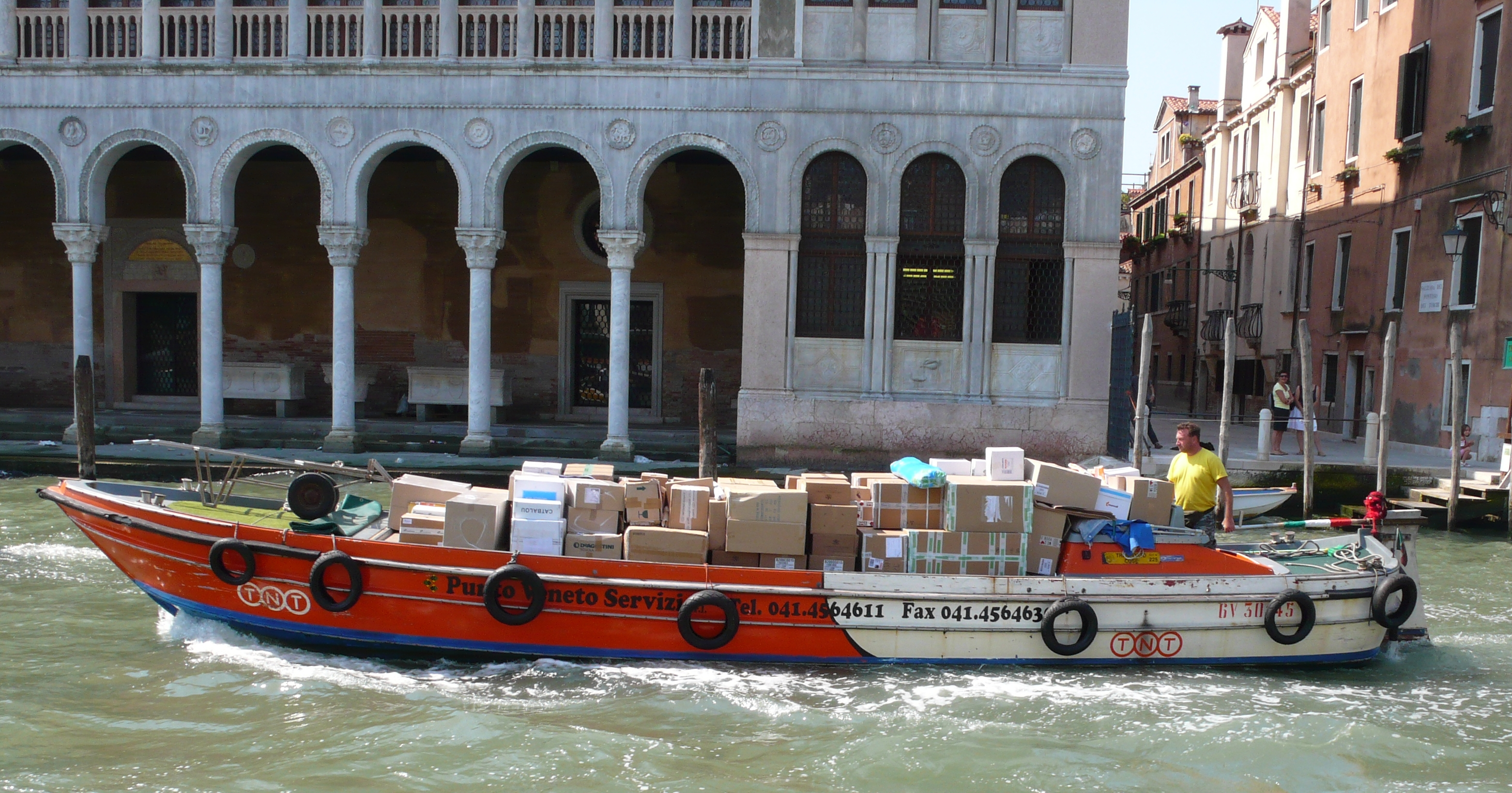 TNT Venice